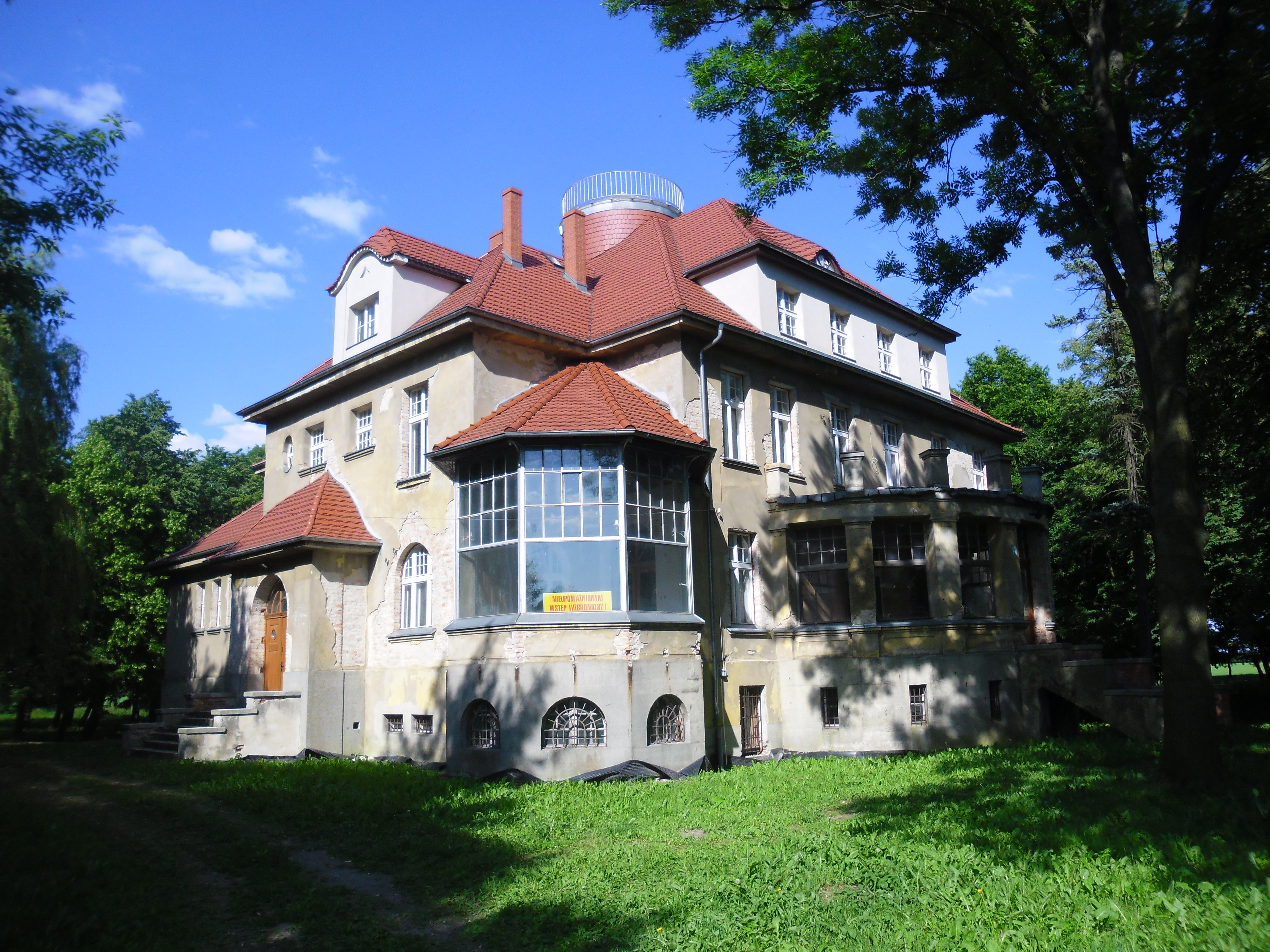 Palace in Ostrowo Szlacheckie seen from the south-west side